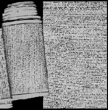 pic of Sade's manuscript of the 120 days of Sodom